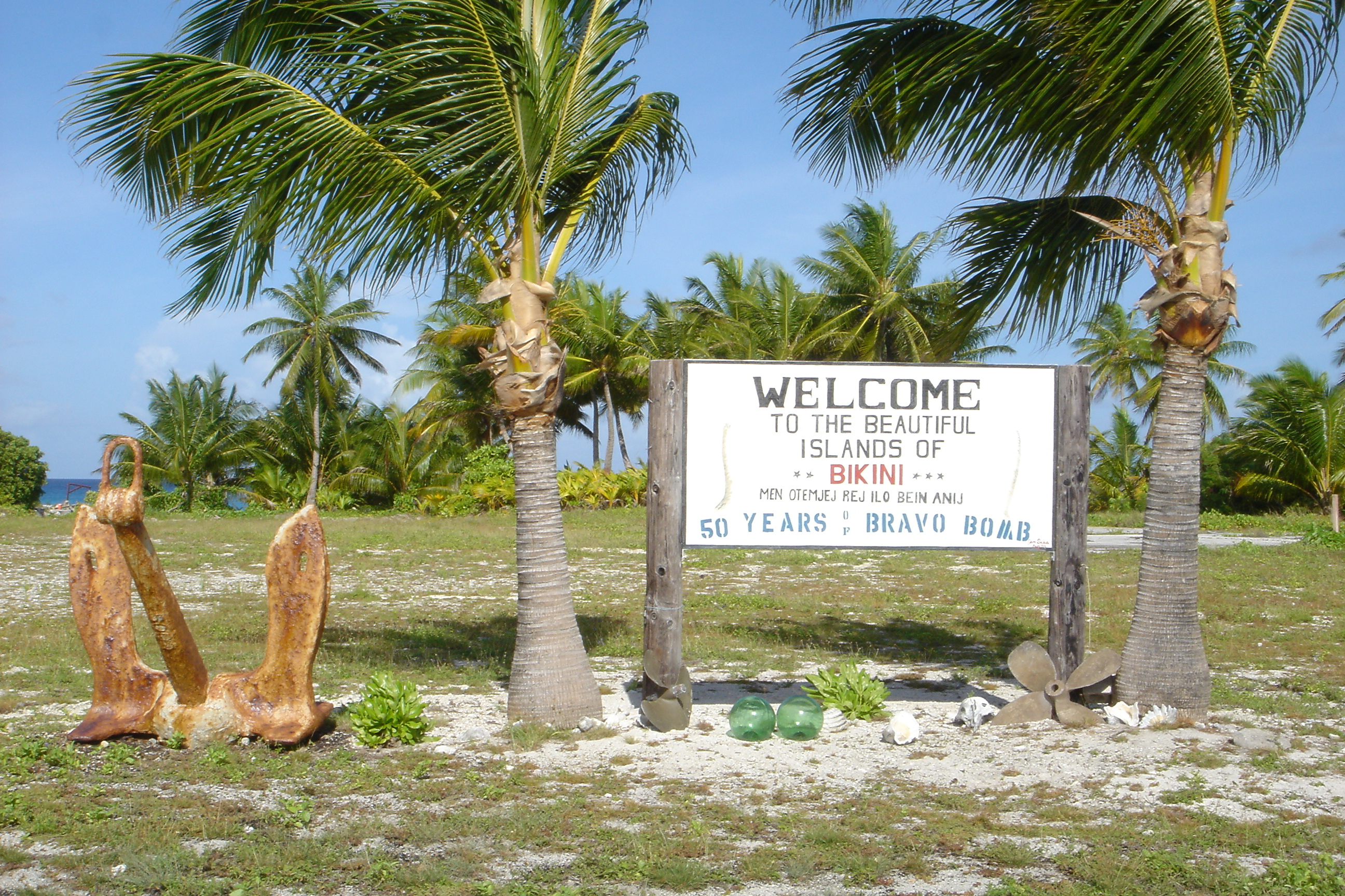 Bikini Atoll Nuclear Test Site (Marshall Islands)